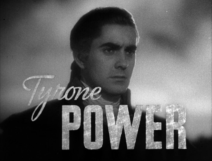 Cropped screenshot of Tyrone Power from the trailer for the film Marie Antoinette